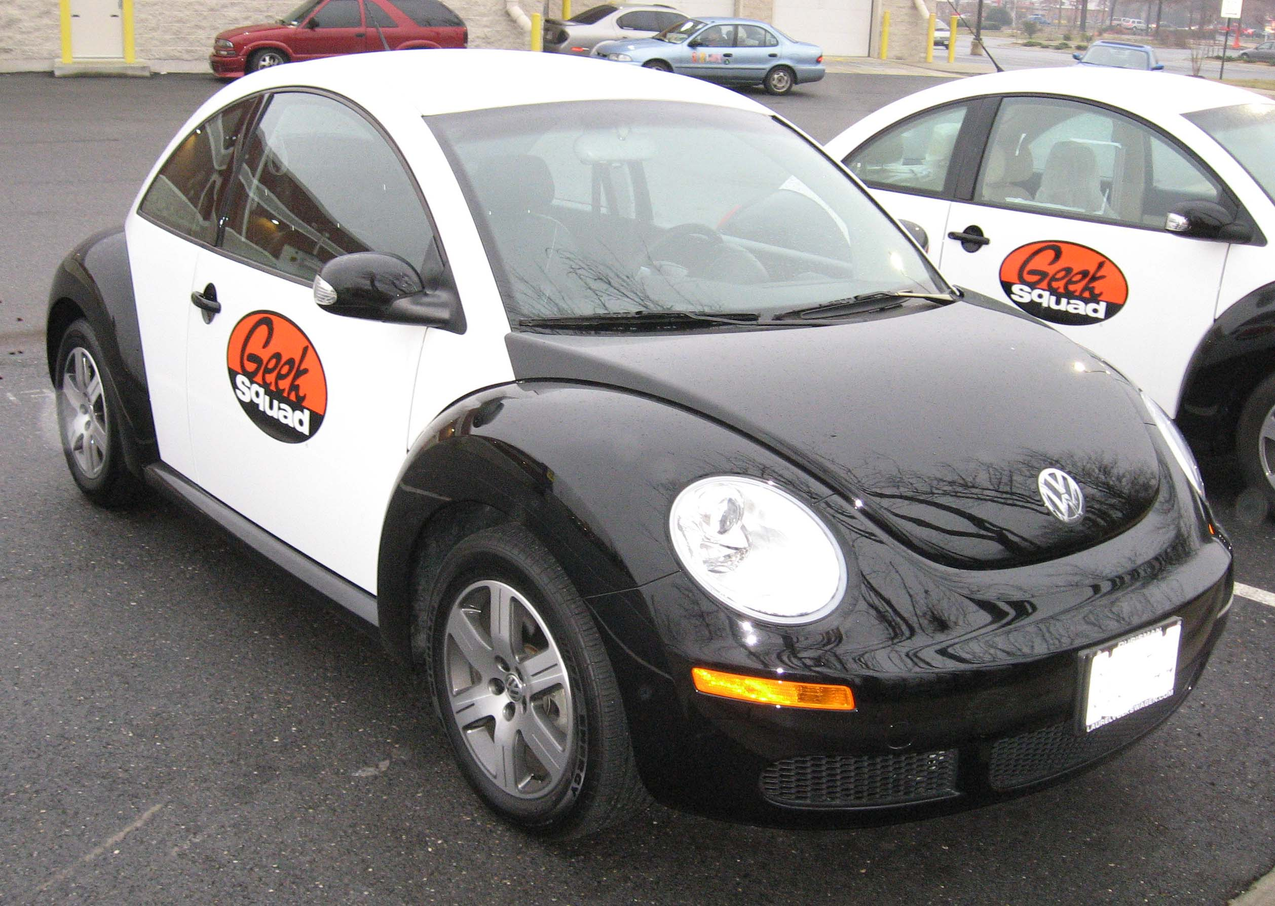 2006 Volkswagen New Beetle photographed in USA.